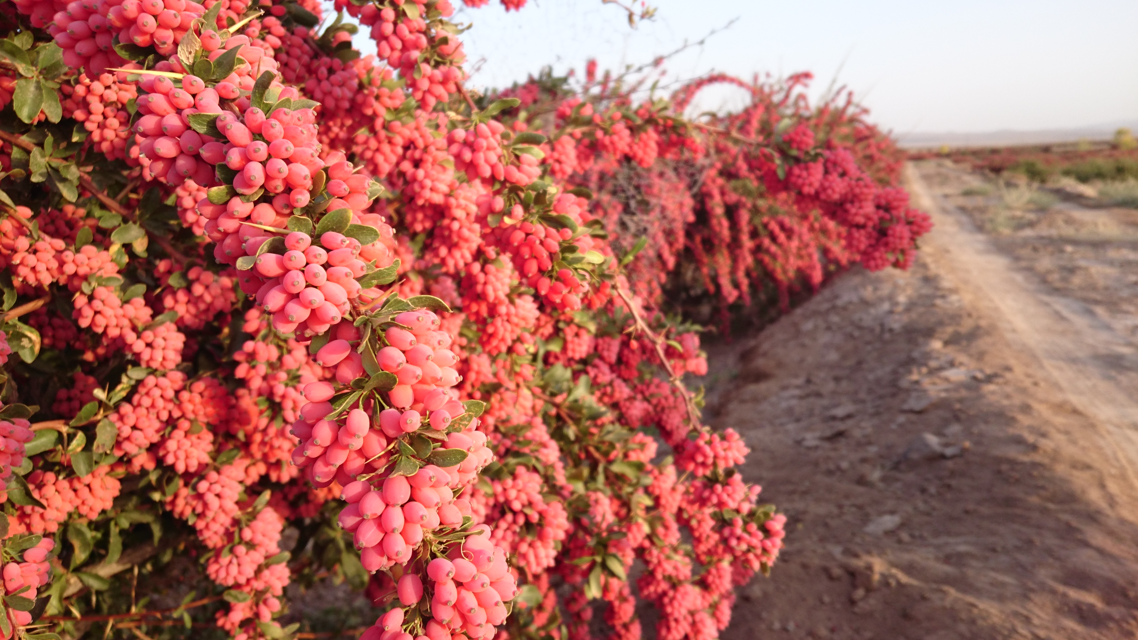 This picture was taken from Mr.Esmaili's barberry garden in Bando. photographer : Ehsan Mohammadi Mahmuei